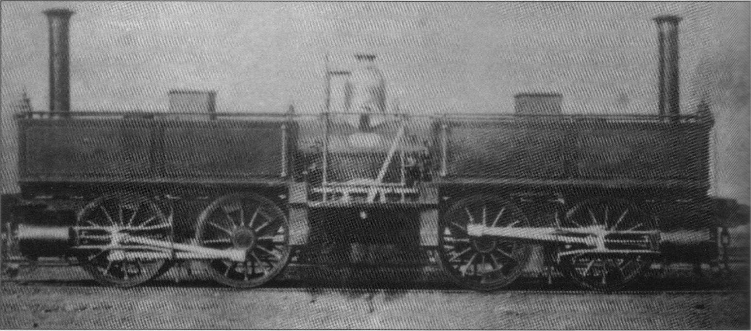 Double locomotive Mountaineer. Built in 1866 by J Cross of St Helens. Operated for a short time on the Anglesey Central Railway, and also on the Neath and Brecon Railway.